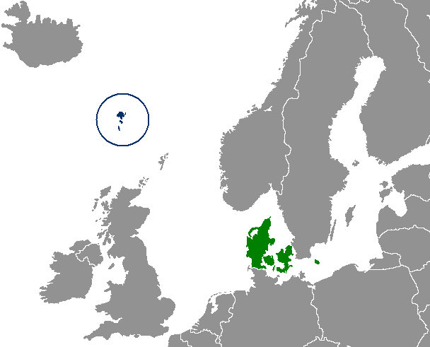 A map which compares the Danish autonomous country of the Faroe Islands to mainland Denmark.